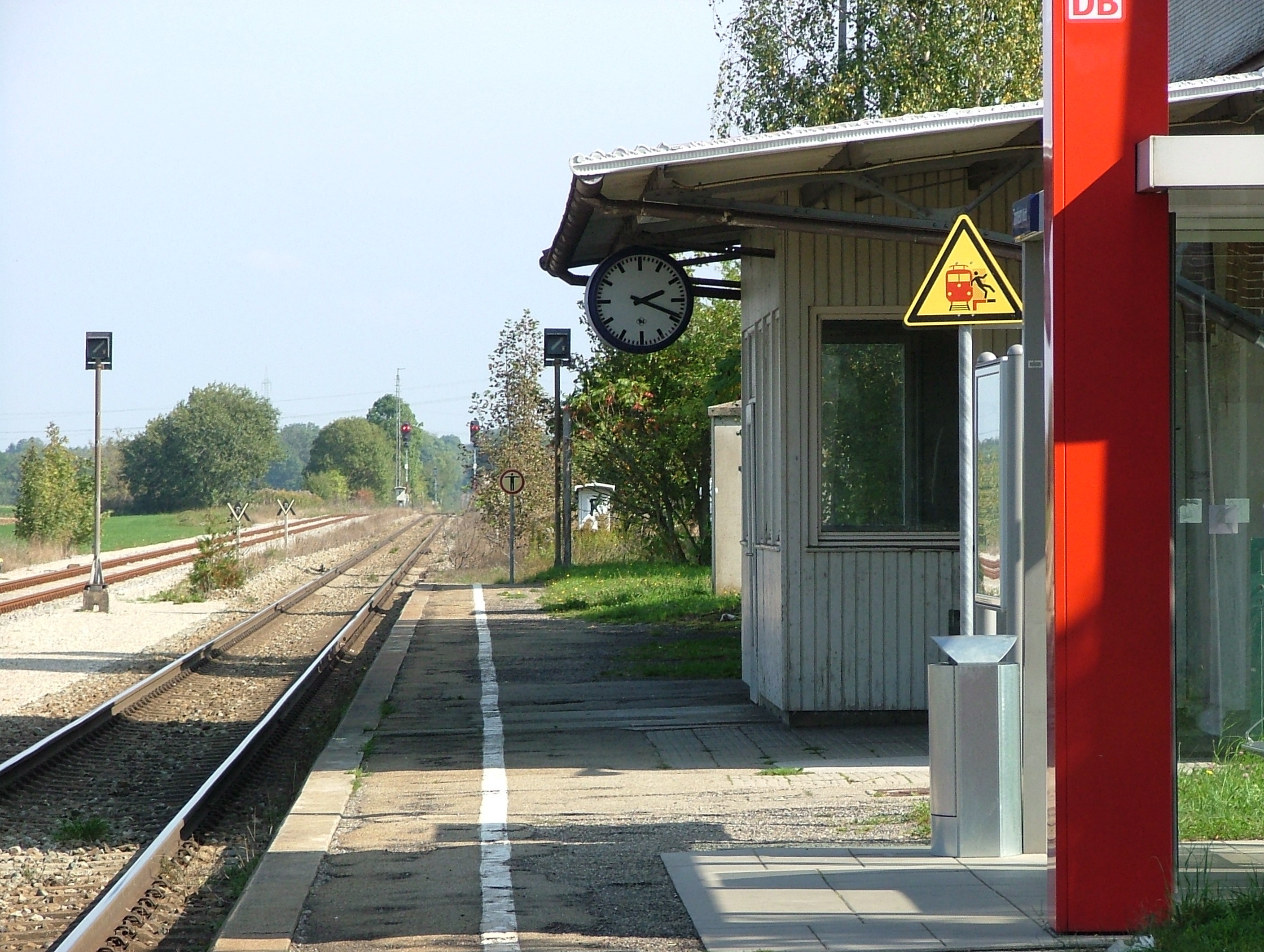 Tannheim Bahnhof